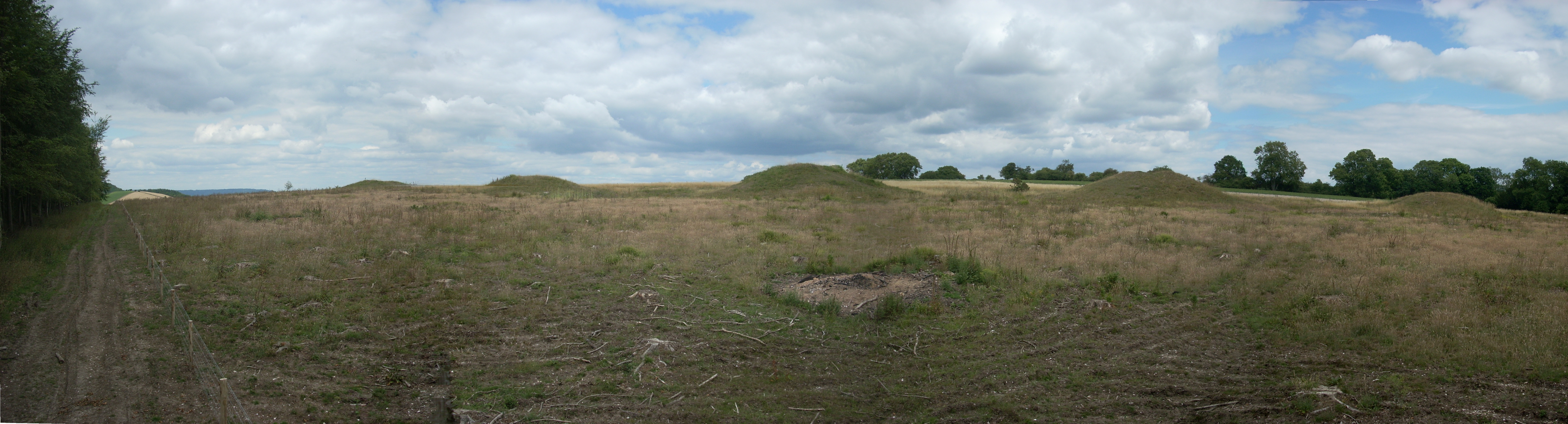 A panorama of the Devils Jumps, near Treyford in West Sussex, UK. Bronze Age burial mounds.